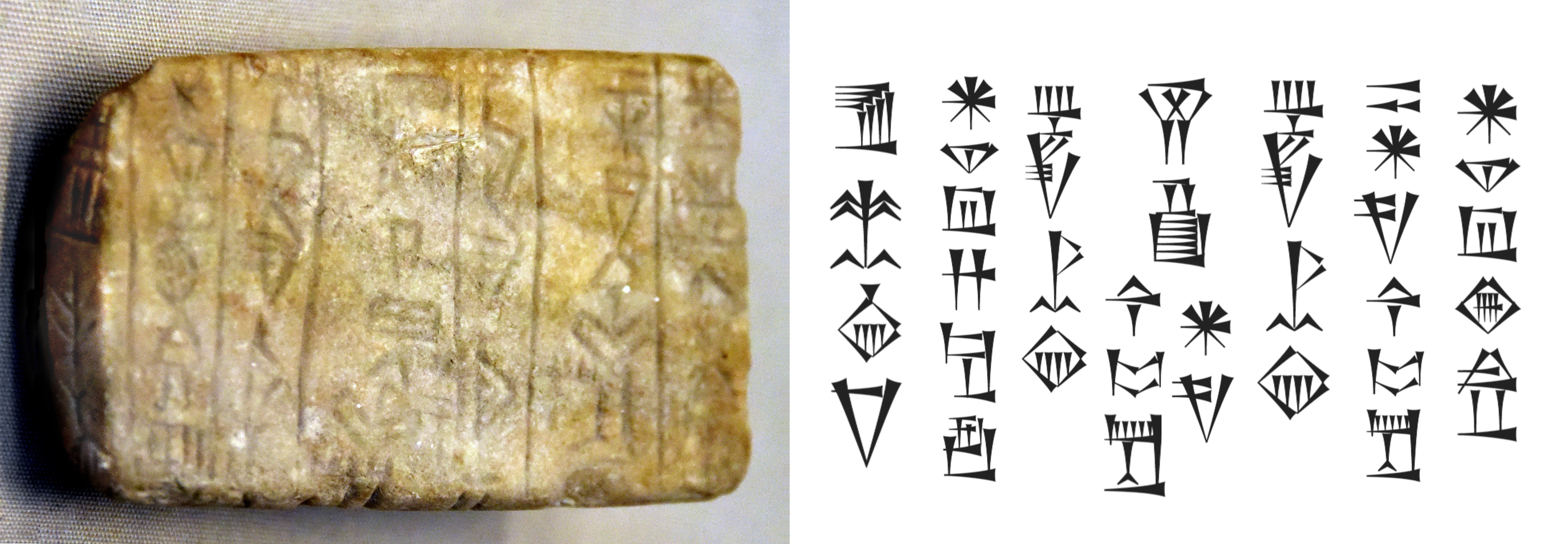 Stone foundation inscription, from Tell al-Ubaid, Iraq, 2500 BCE. British Museum (horizontal, with transcription)